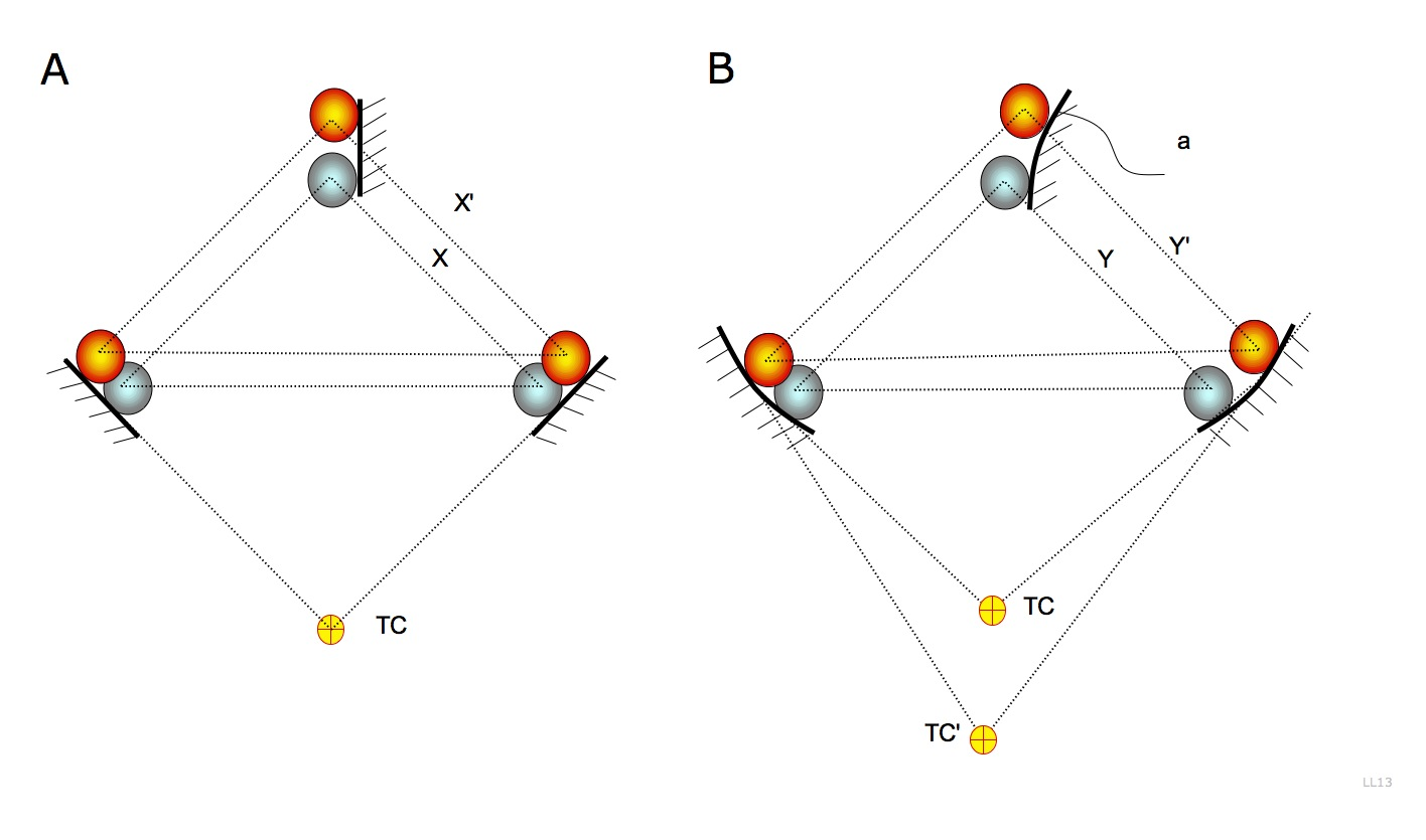 Illustrative picture of the influence of the accuracy of the DOF on the position of the thermal center (TC). Picture A: geometric construction of the Thermal Center: under the mentioned hypothesis, Thermal Center position is only function of the constraints. Picture B: This is an example of Thermal Center not defined, since the geometrical construction leads to different points for different expansions.